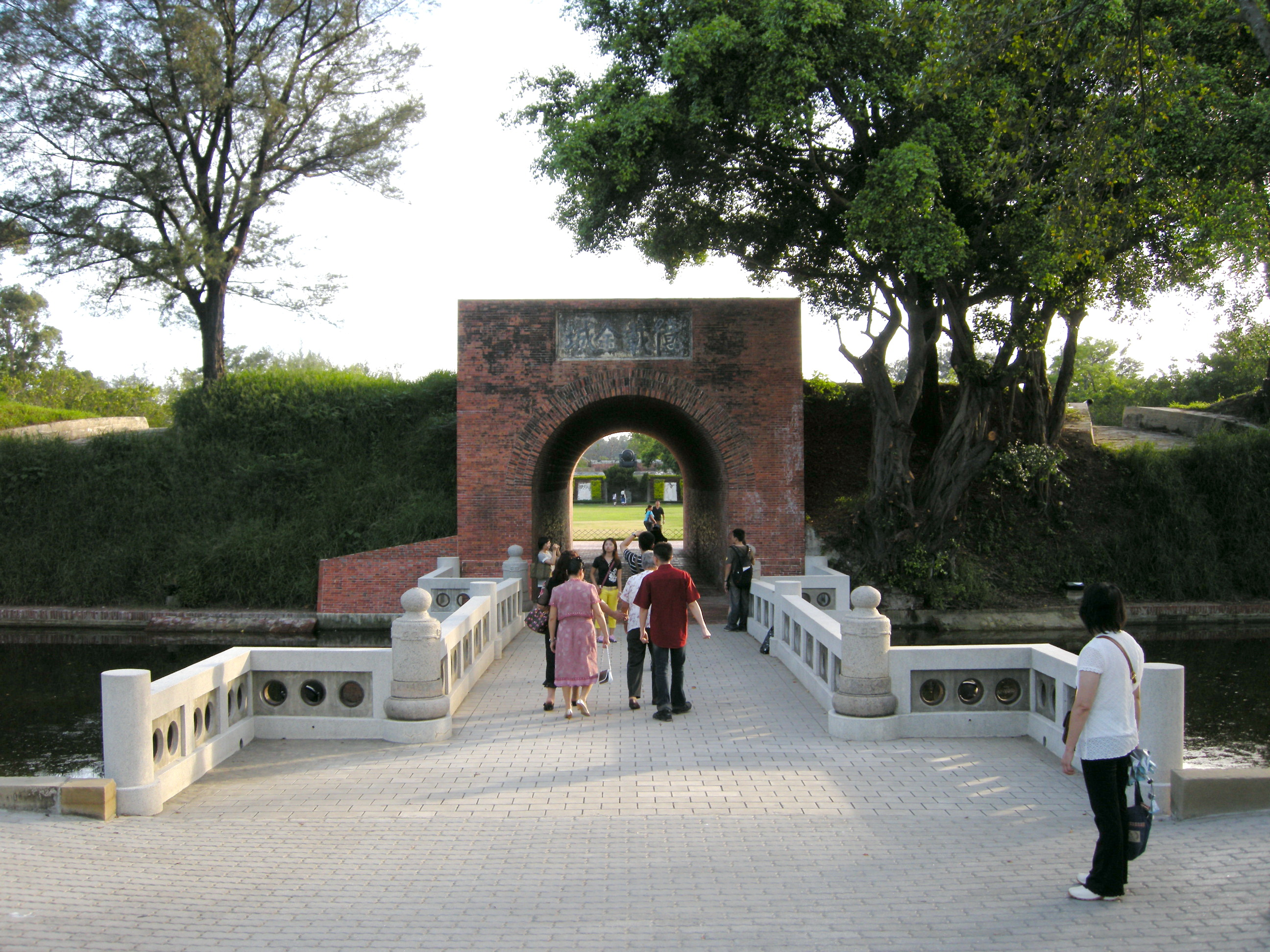 The Gate to the Eternal Golden Castle, Tainan. There is a stele which was inscribed "億載金城"(Yìzǎi Jīnchéng) on this Gate.